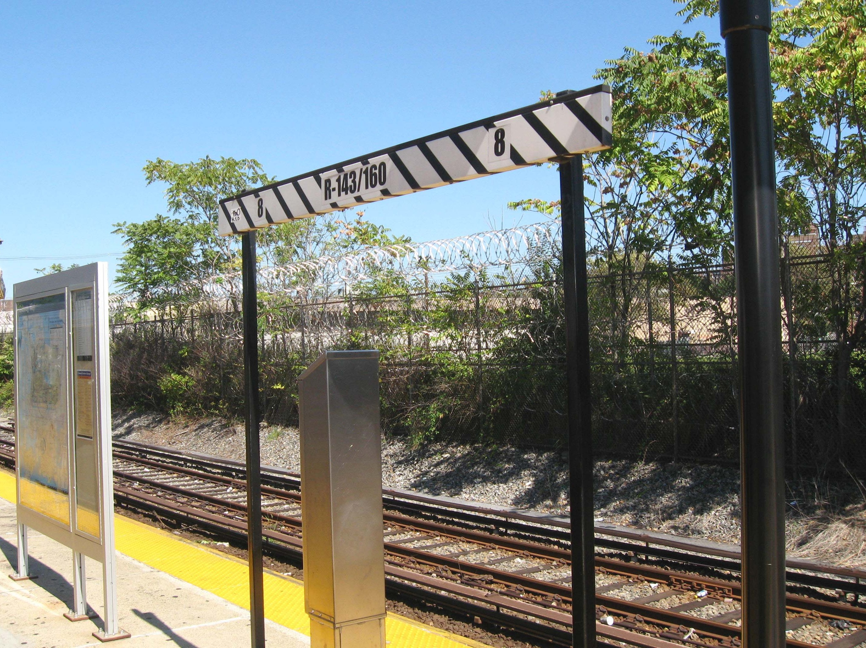 Looking east across island platform of East 105th Street (BMT Canarsie Line) on a sunny midday